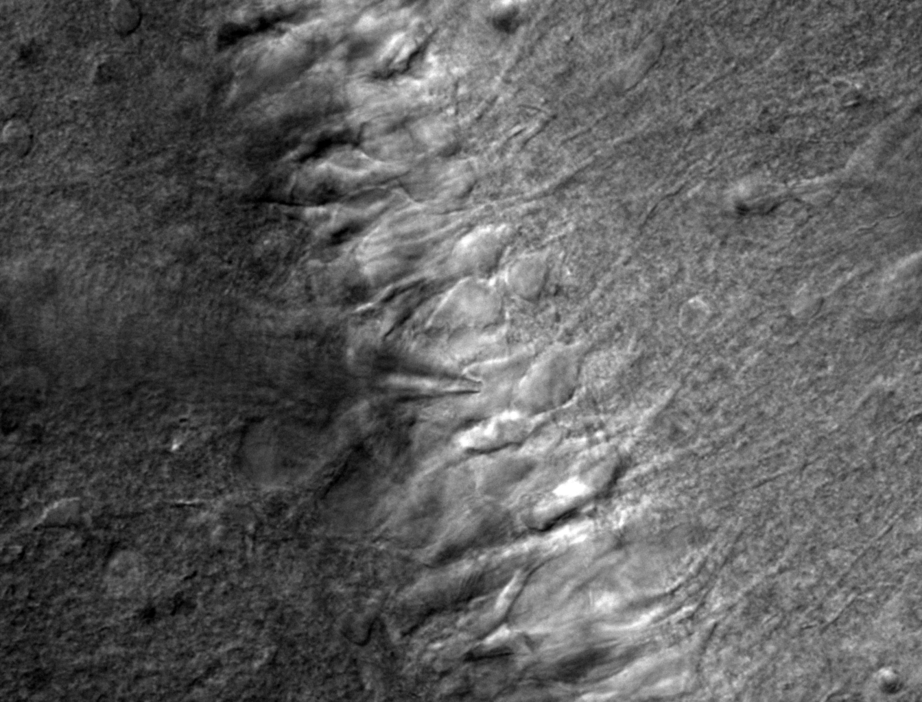 image of whole cell patch clamp onto CA1 region of hippocampus.